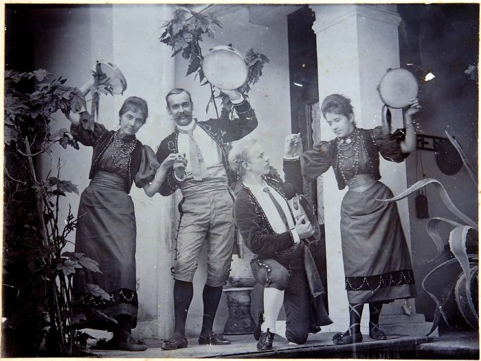 Tableau vivant (living picture), Dutch East Indies